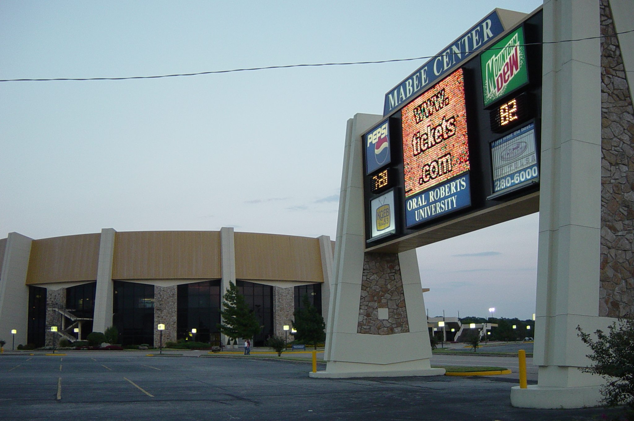 Photograph of the Mabee Center on the campus of Oral Roberts Universityen in Tulsaen, Oklahomaen.